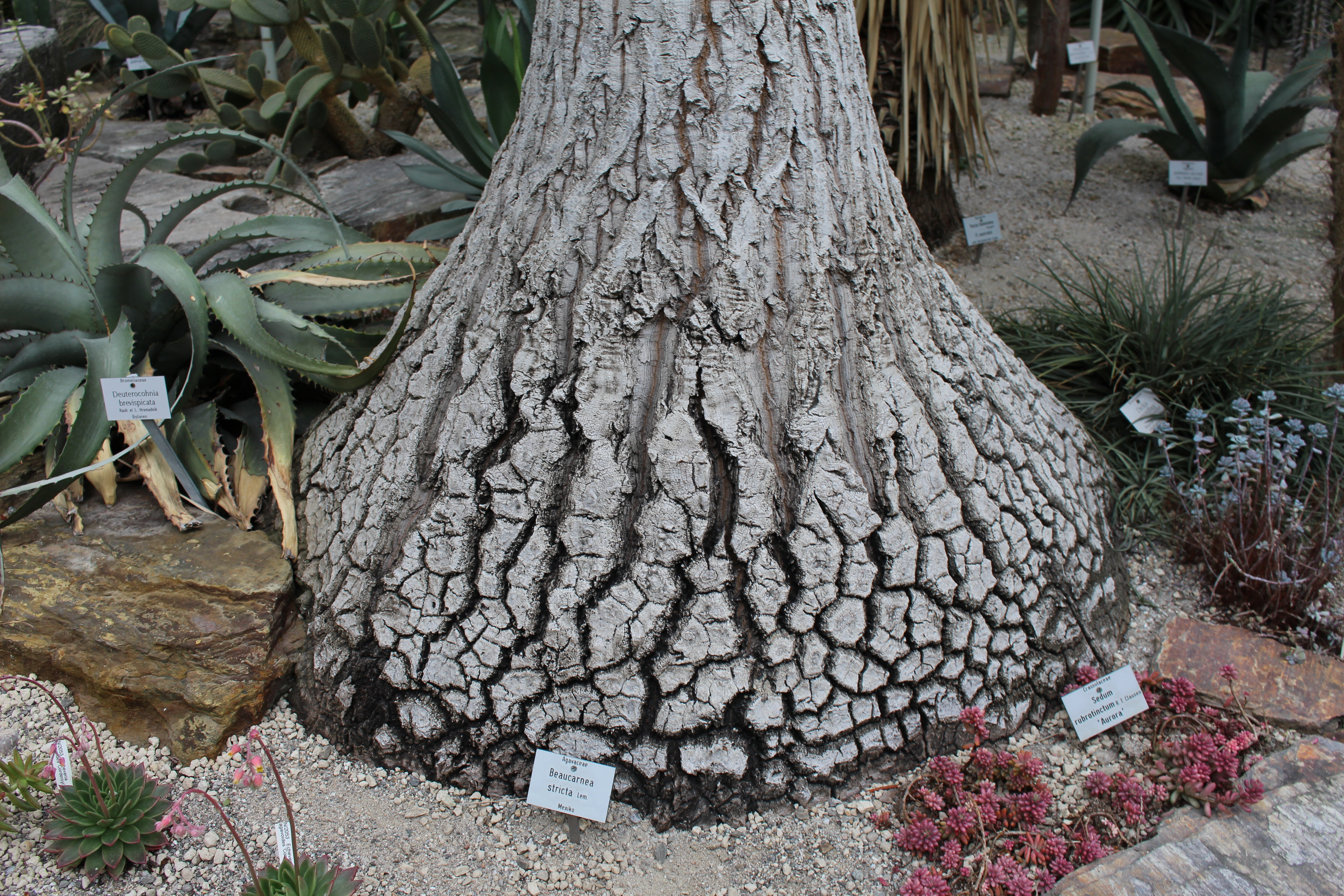 Beaucarnea stricta (trunc) at the botanical garden München-Nymphenburg